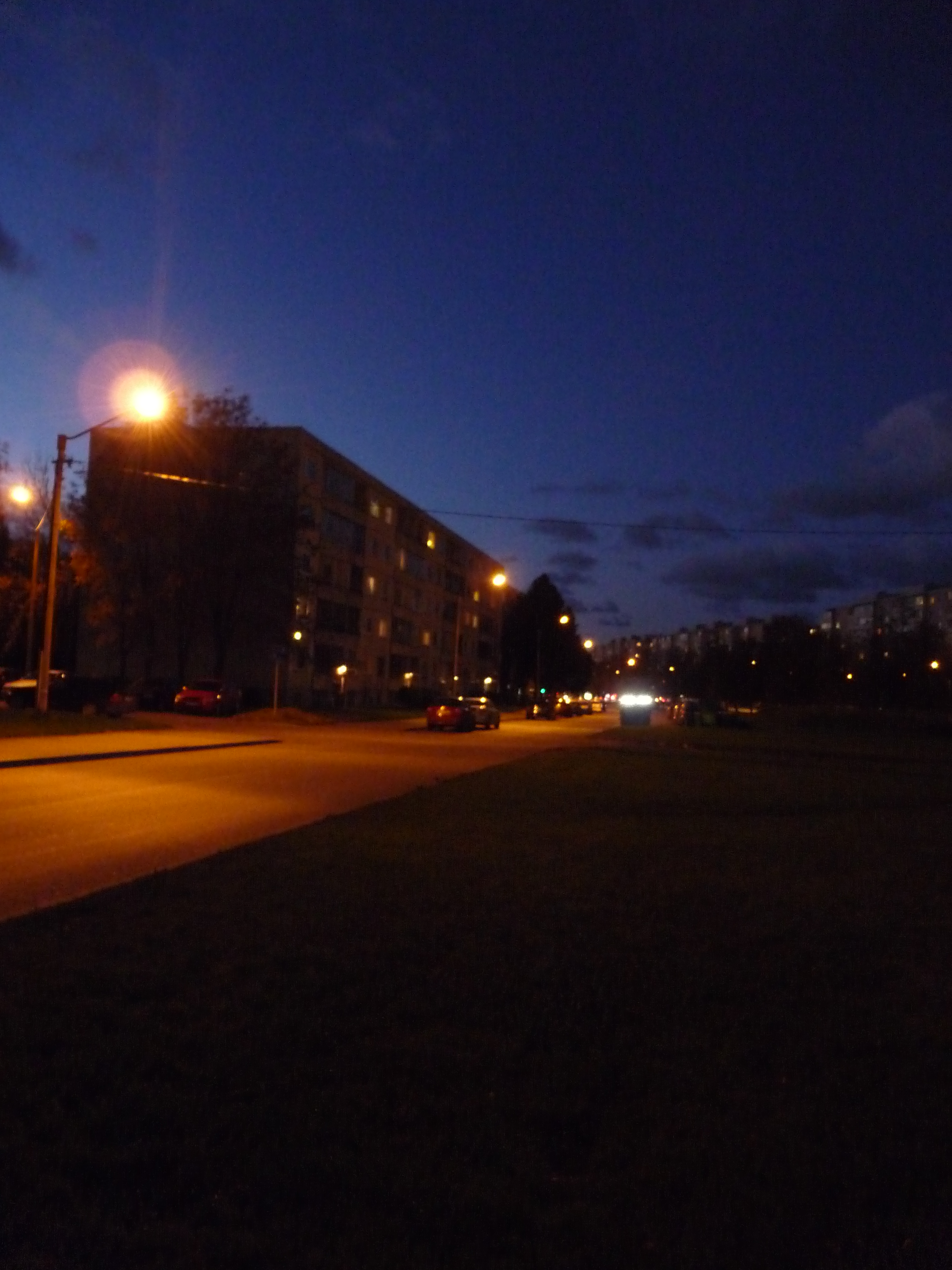 End of Paekaare street in Tallinn, Estonia.